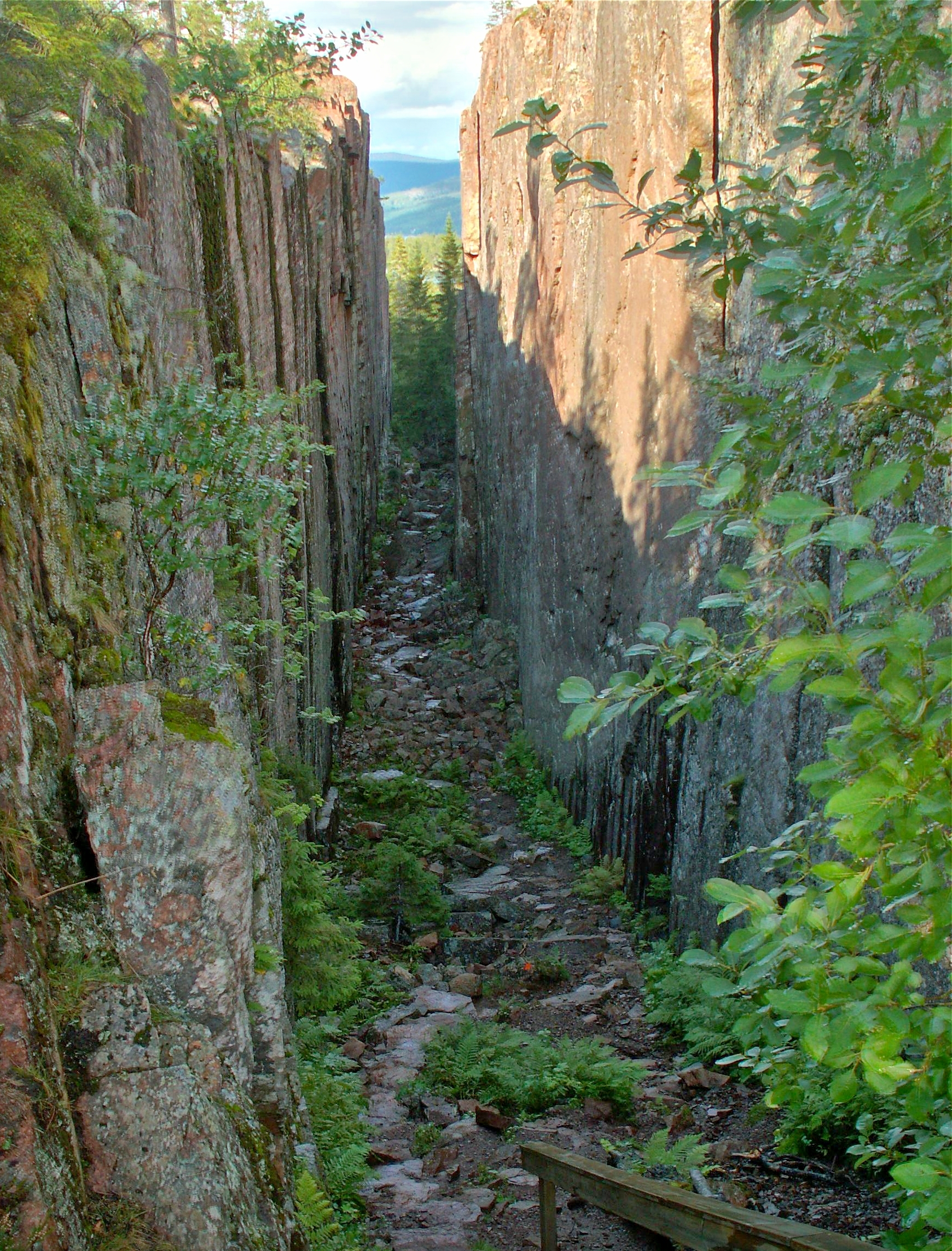 Slåttdalsskrevan, Skuleskogen national park